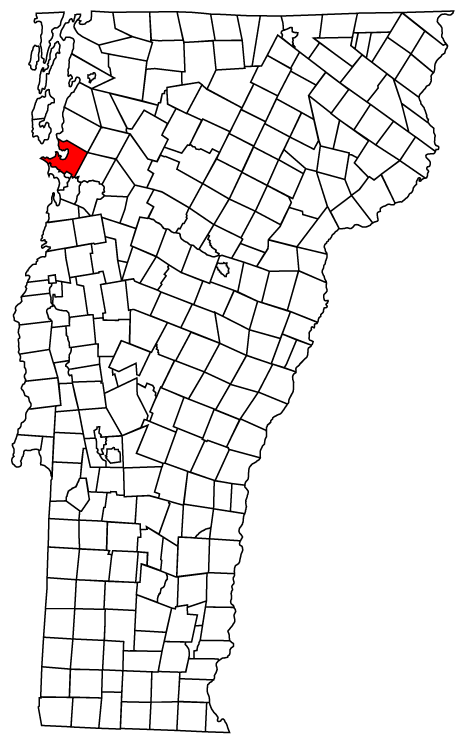 Description: Map of Vermont towns with Colchester highlighted Source: Map created by Jared C. Benedict on 26 March 2004. Copyright: © Jared C. Benedict.